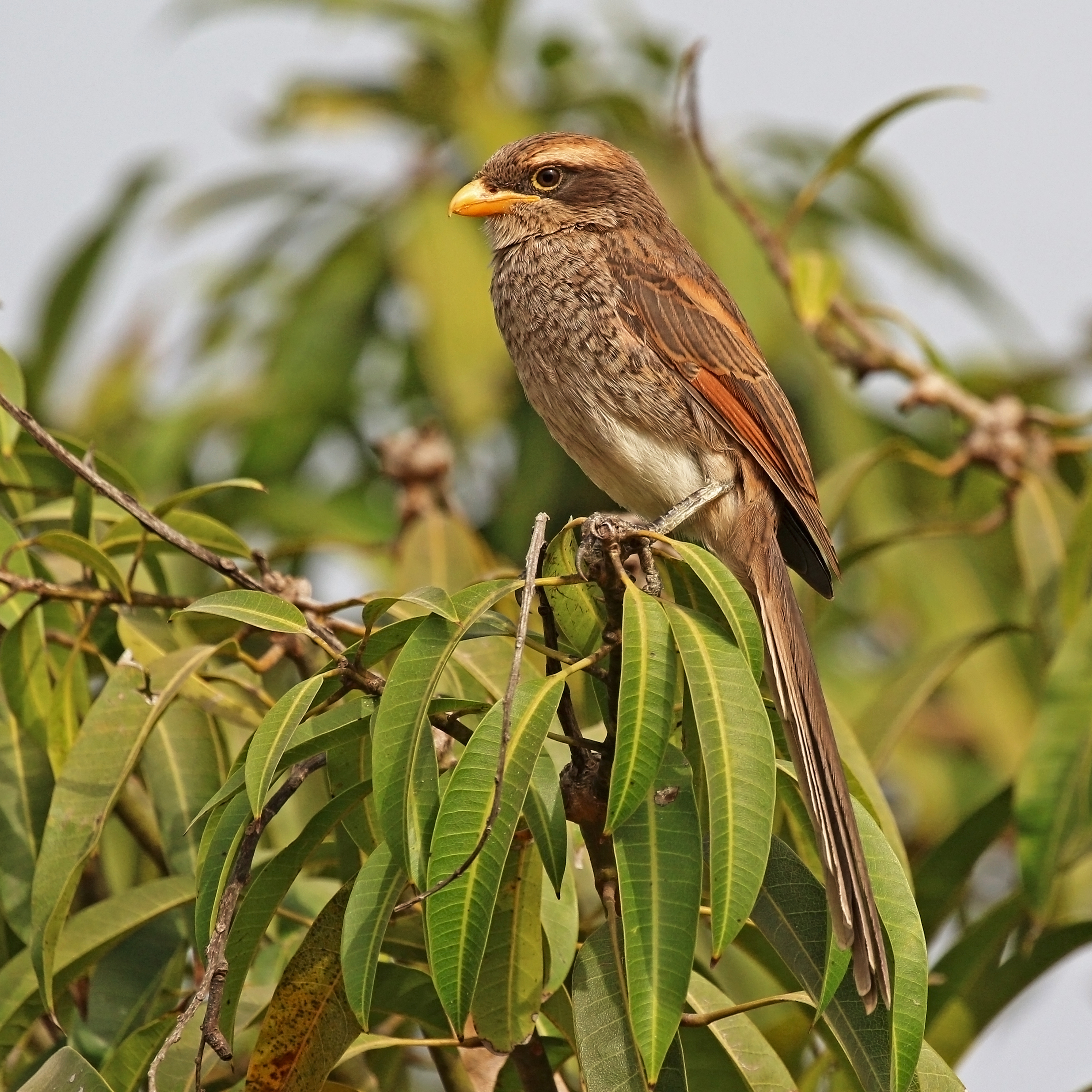 Yellow-billed shrike (Corvinella corvina corvina), juvenile, The Gambia